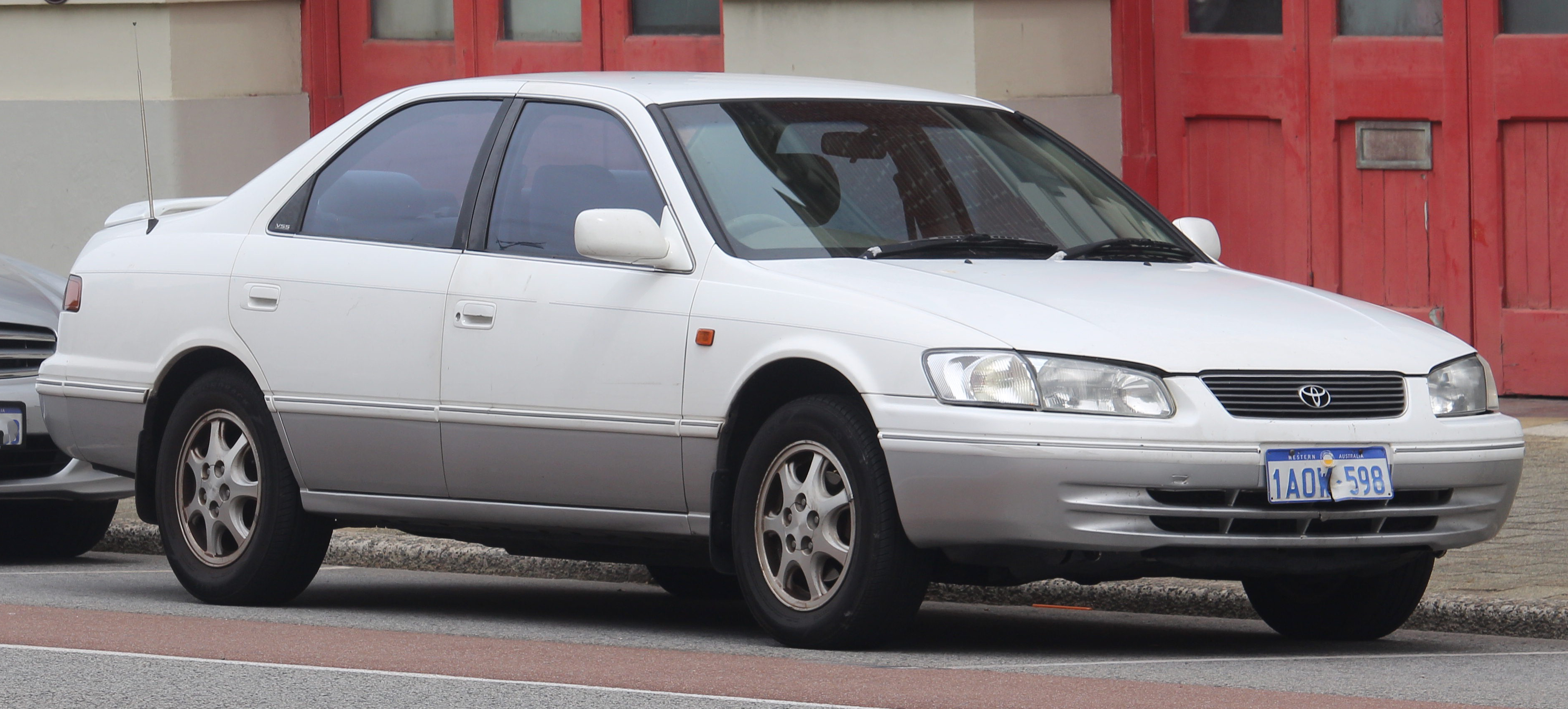 1997-2000 Toyota Vienta (MCV20R) VXi sedan. Photographed in Fremantle, Western Australia, Australia.